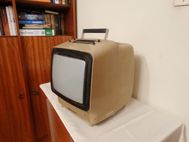 Portable colour TV set Šilelis S-401, screen 32 cm, made in Lithuania. Collection of Zenonas Langaitis